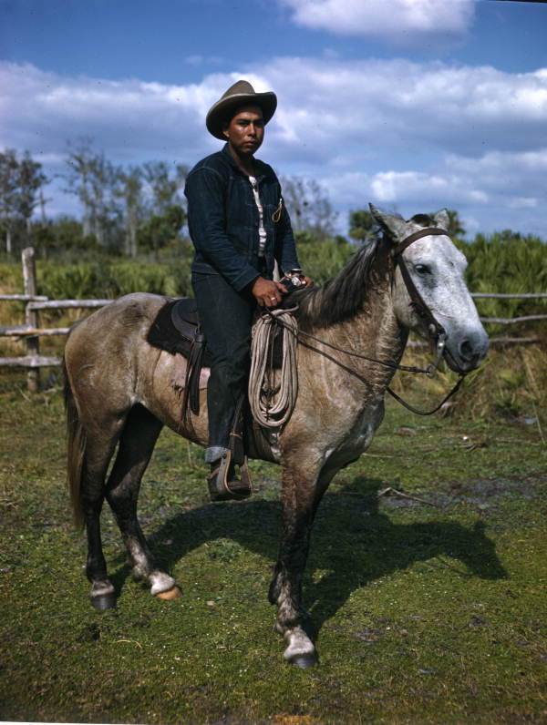 Local call number: JJS0593 Title: Unidentified Seminole cattleman: Brighton Reservation, Florida Date: October 19, 1949 Physical descrip: 1 transparency - col. - 5 x 4 in. Series Title: Repository: 500 S. Bronough St., Tallahassee, FL 32399-0250 USA. Contact: 850.245.6700. Persistent URL